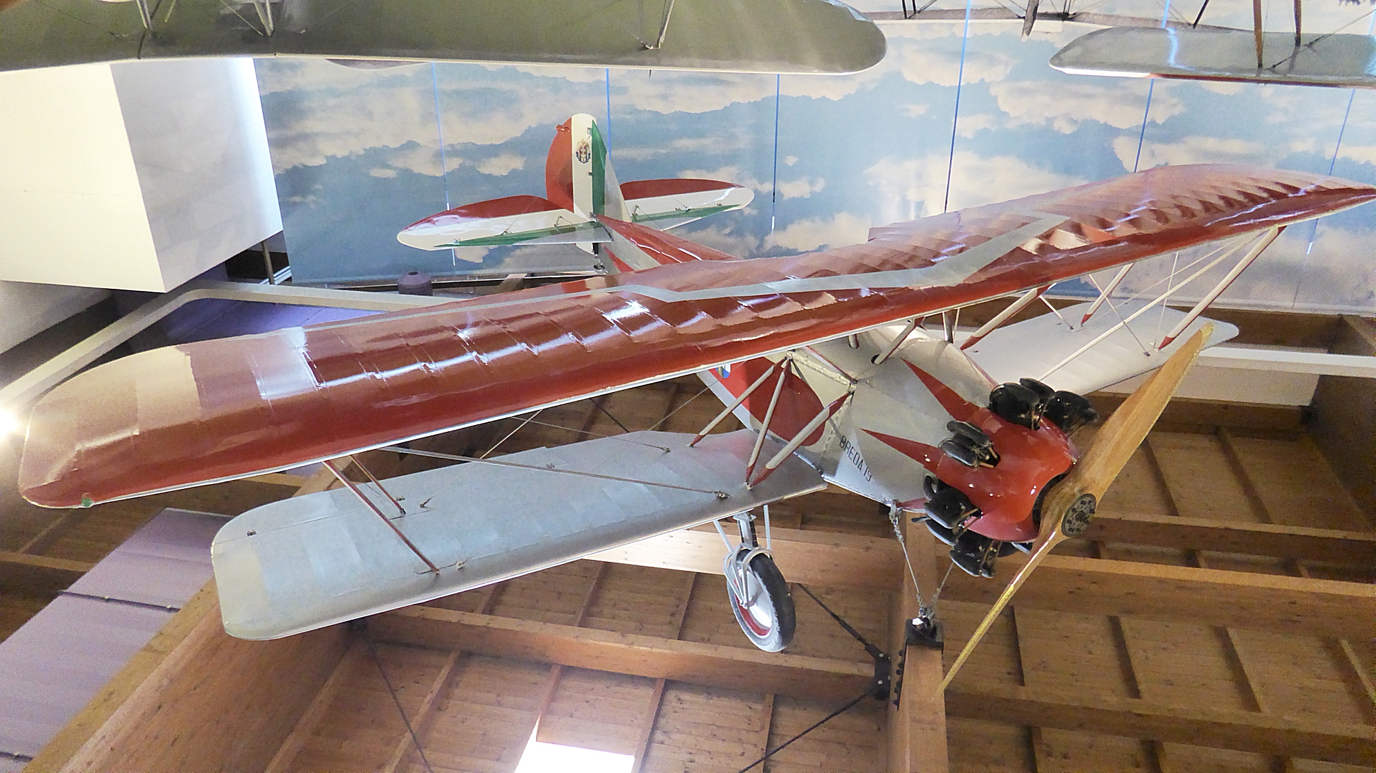 On display at the Gianni Caproni Museum of Aeronautics, Trento Airport, Italy. Displayed inverted, photo rotated for clarity. This is the sole surviving example, in the markings of the aircraft flown by Lt Andrea Zotti in the 1932 National Air Races in the USA.